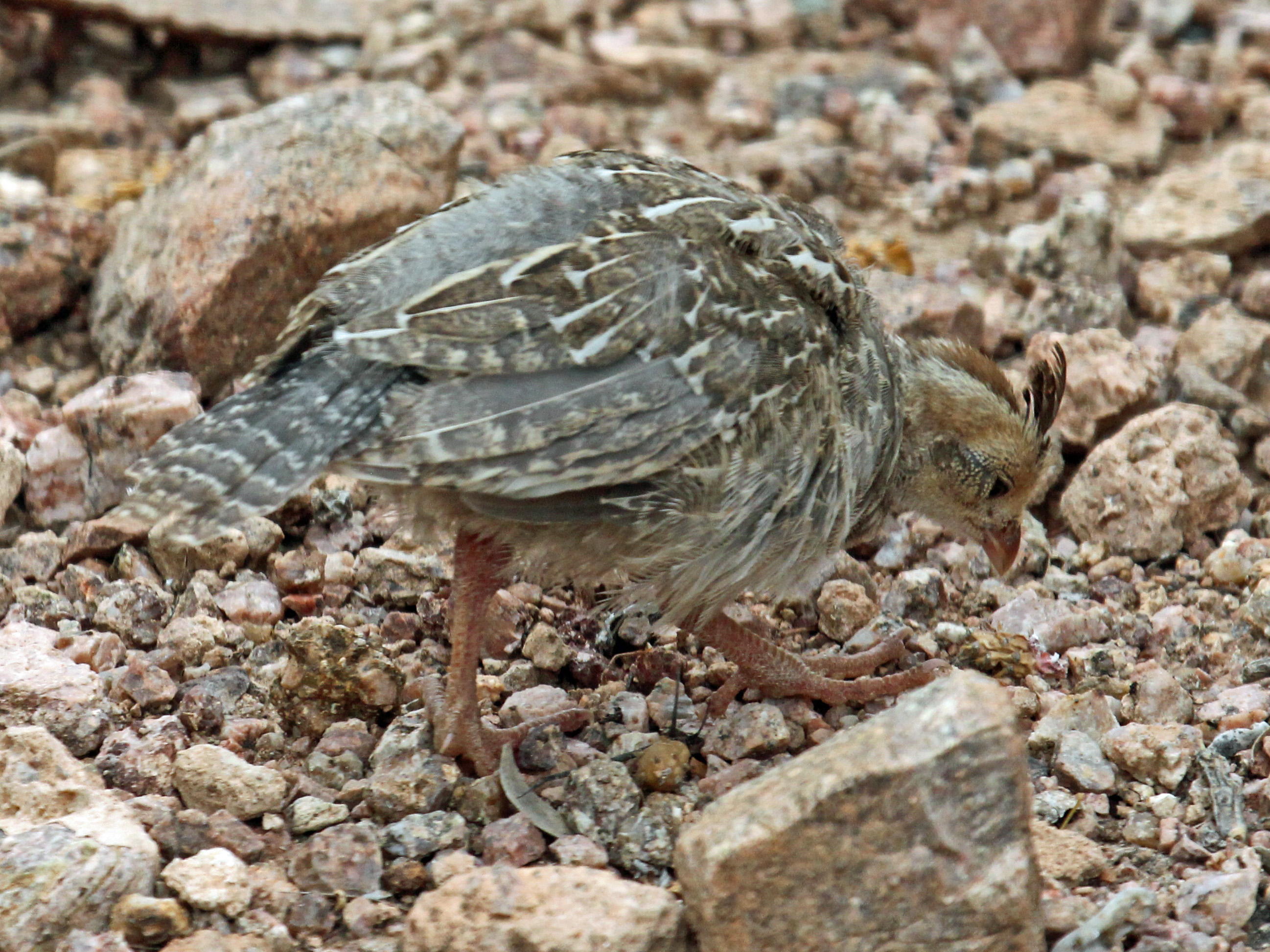 Juvenile Gambel's Quail (Callipepla gambelii) taken in the wild at Desert Botanical Garden in Phoenix, Arizona.